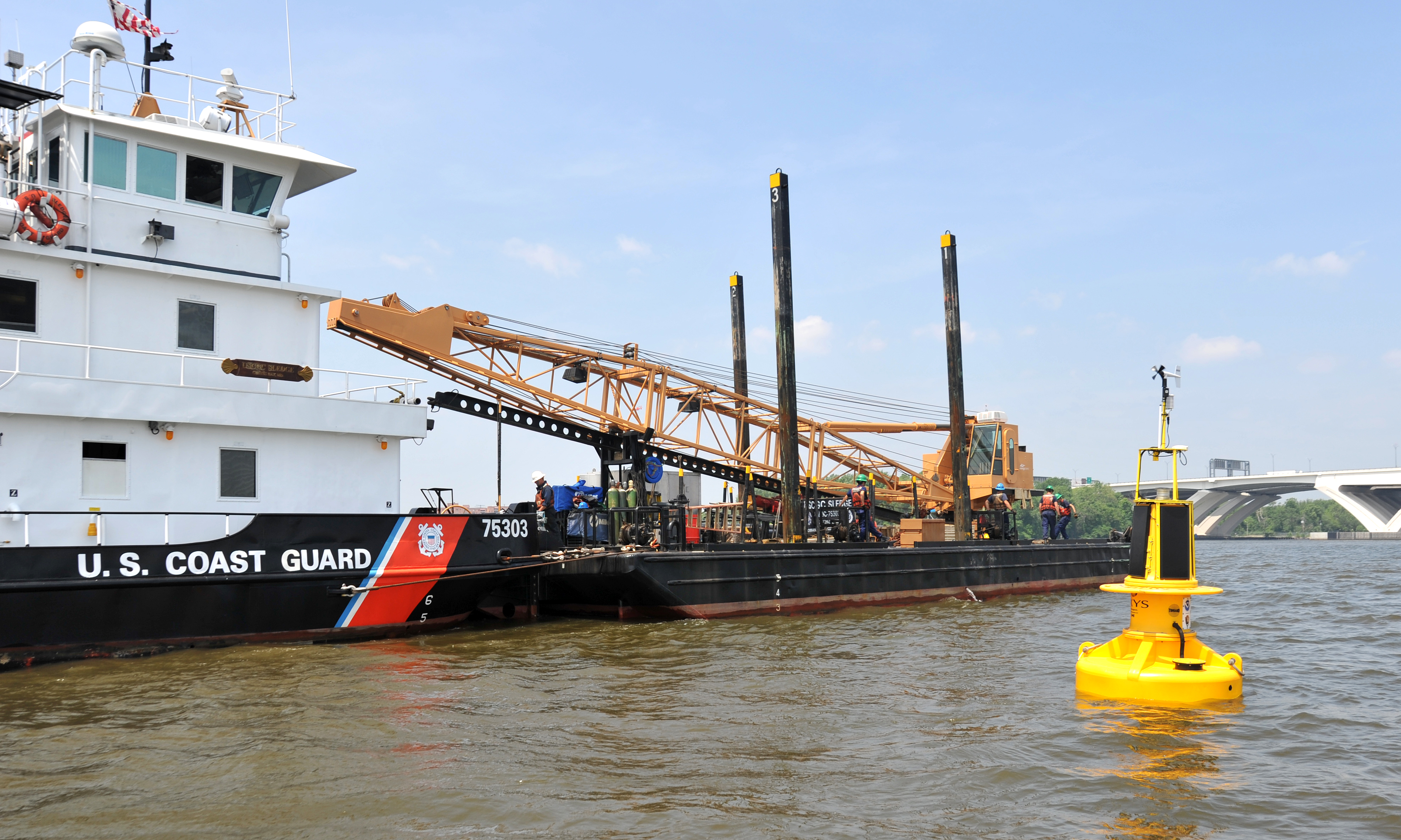 100514-G-6722B-491 - Coast Guard, NOAA set buoy in Potomac River. The Coast Guard Cutter Sledge, a 75-foot construction tender homeported in Baltimore, departs after releasing a buoy for the National Oceanic and Atmospheric Administration in the Potomac River, May 14, 2010. U.S. Coast Guard photo by Petty Officer 3rd Class Robert Brazzell.